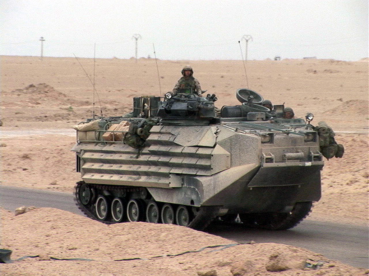 14 APR 2004- An Amphibious Assault Vehicle (AAV) from Echo Company, 2nd Battalion 7th Marines, 1st Marine Division, moves into the city of Fallujah, Iraq. 1st Marine Division, in support of Operation Iraqi Freedom II, is engaged in Security and Stabilization Operations (SASO) in the Al Anbar Province of Iraq.